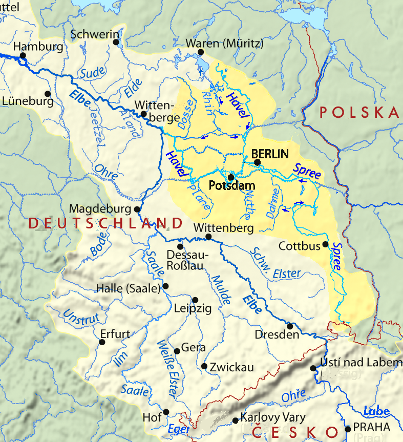 Drainage basin of Elbe River